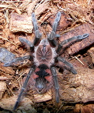 Vitalius wacketi